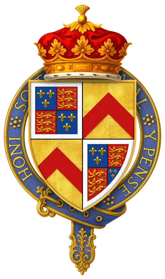 Quartered arms of Sir Edward Stafford, 3rd Duke of Buckingham, KG, as born on his standard at the Battle of Flodden -- quarterly: 1 and 4, England quartering France modern within a bordure argent; 2 and 3, or a chevron gules.